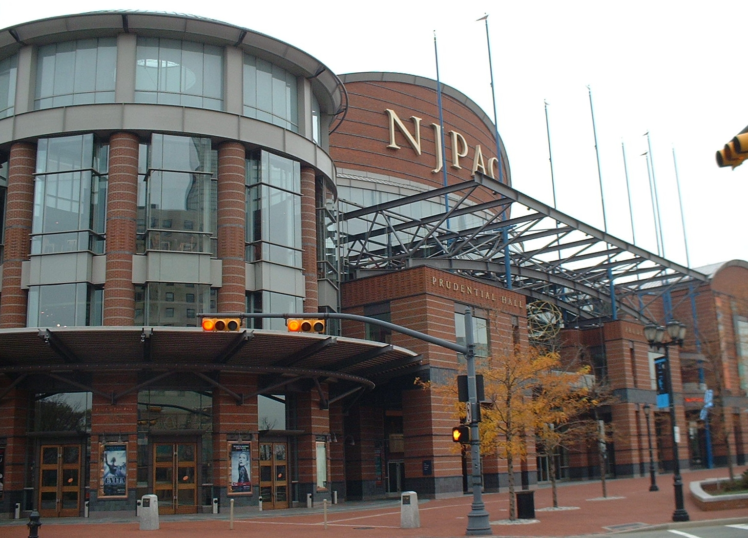 New Jersey Performing Arts Center in Downtown Newark, New Jersey. Completed 1997.